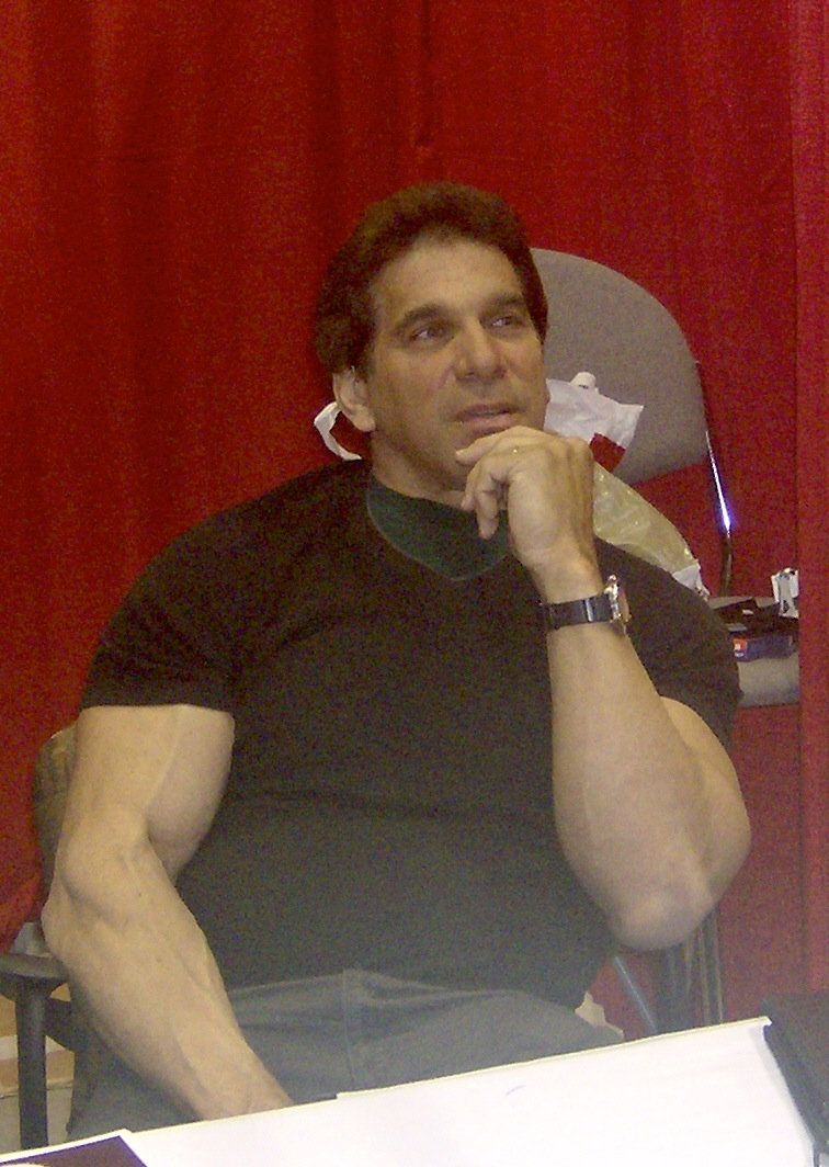 Lou_Ferrigno at the Calgary Comic & Entertainment Expo 2007